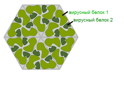 Вирус-гексон